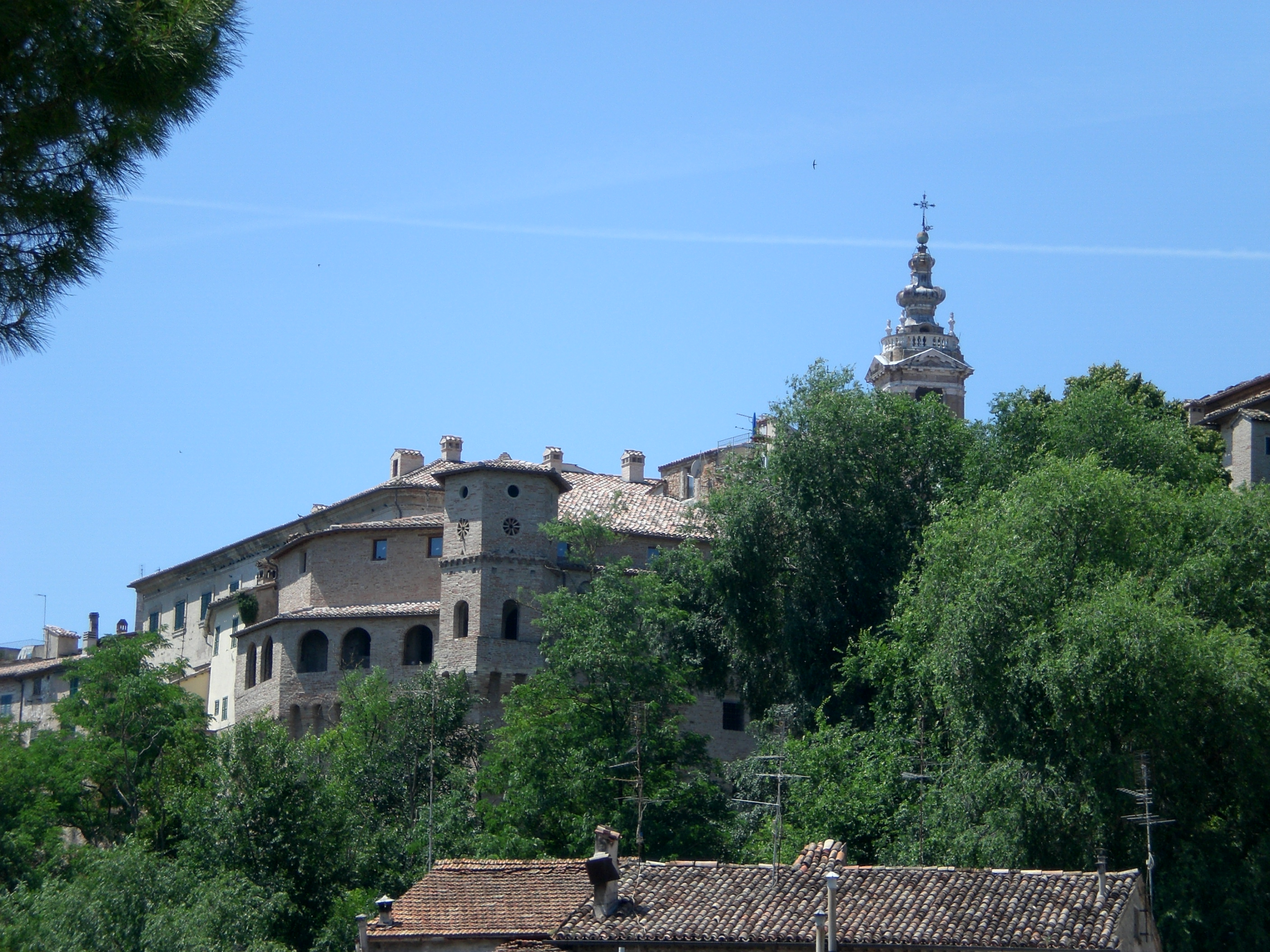 Jesi, view by Old Town